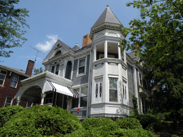 Picture of the Wigman House located at 1425 Brownsville Road in the Carrick neighborhood of Pittsburgh, Pennsylvania, on July 21, 2011. Built in 1888 for William Wigman, the owner of Wigman Lumber on the South Side, the house was listed on the City of Pittsburgh historic designations on July 12, 2011. *Architectural style: Victorian Queen Anne style.